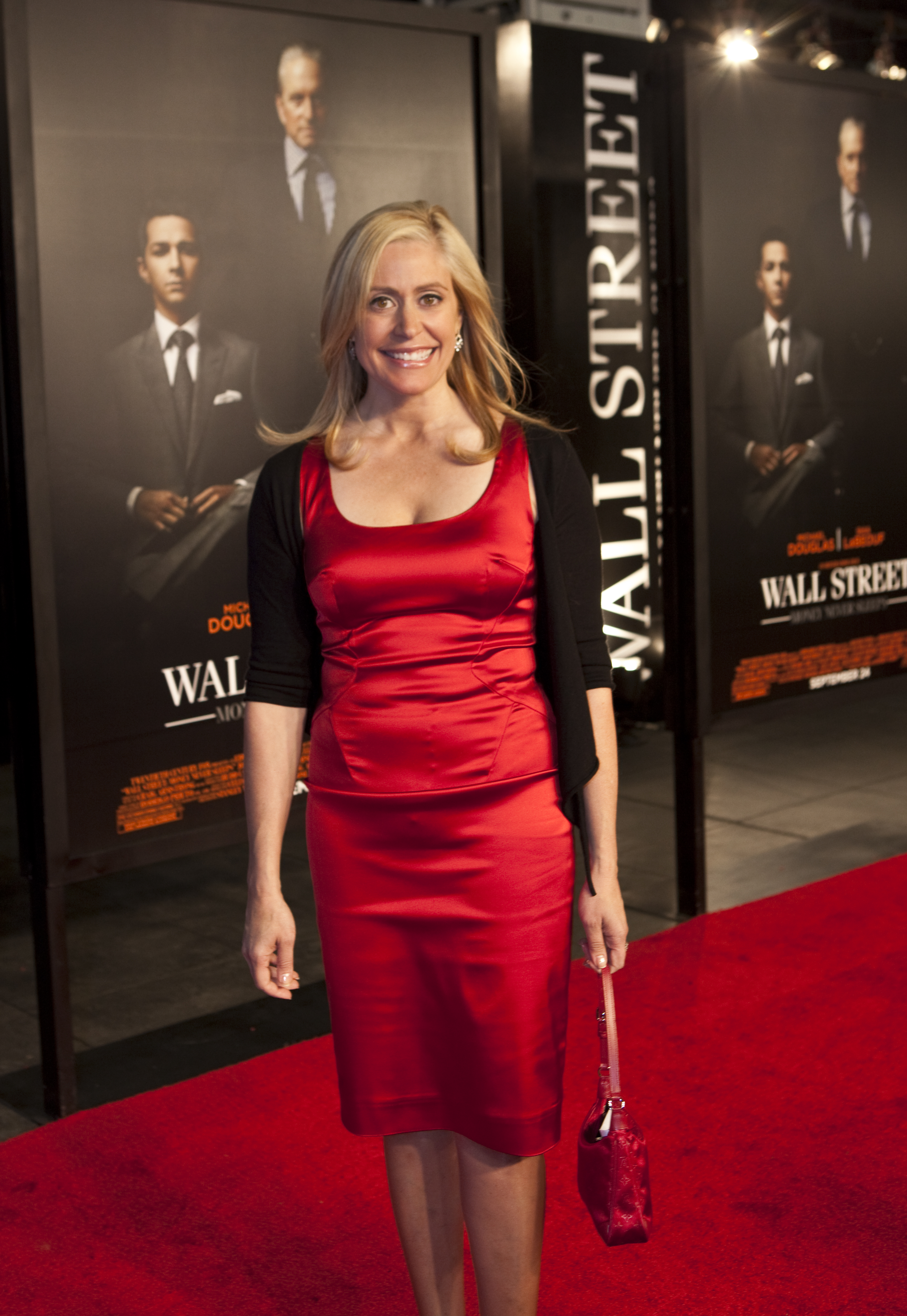 Melissa Francis CNBC Anchor on the Red Carpet for Wall Street Money Never Sleeps Premiere